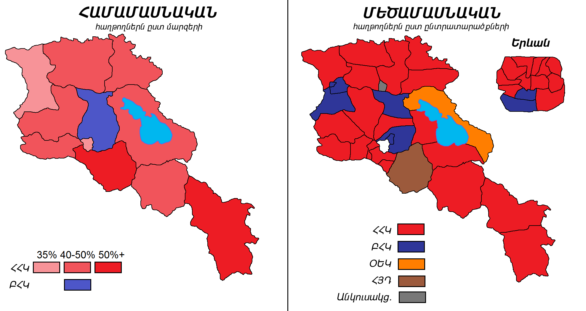 The results of 2012 Armenian parliamentary election by electoral districts.